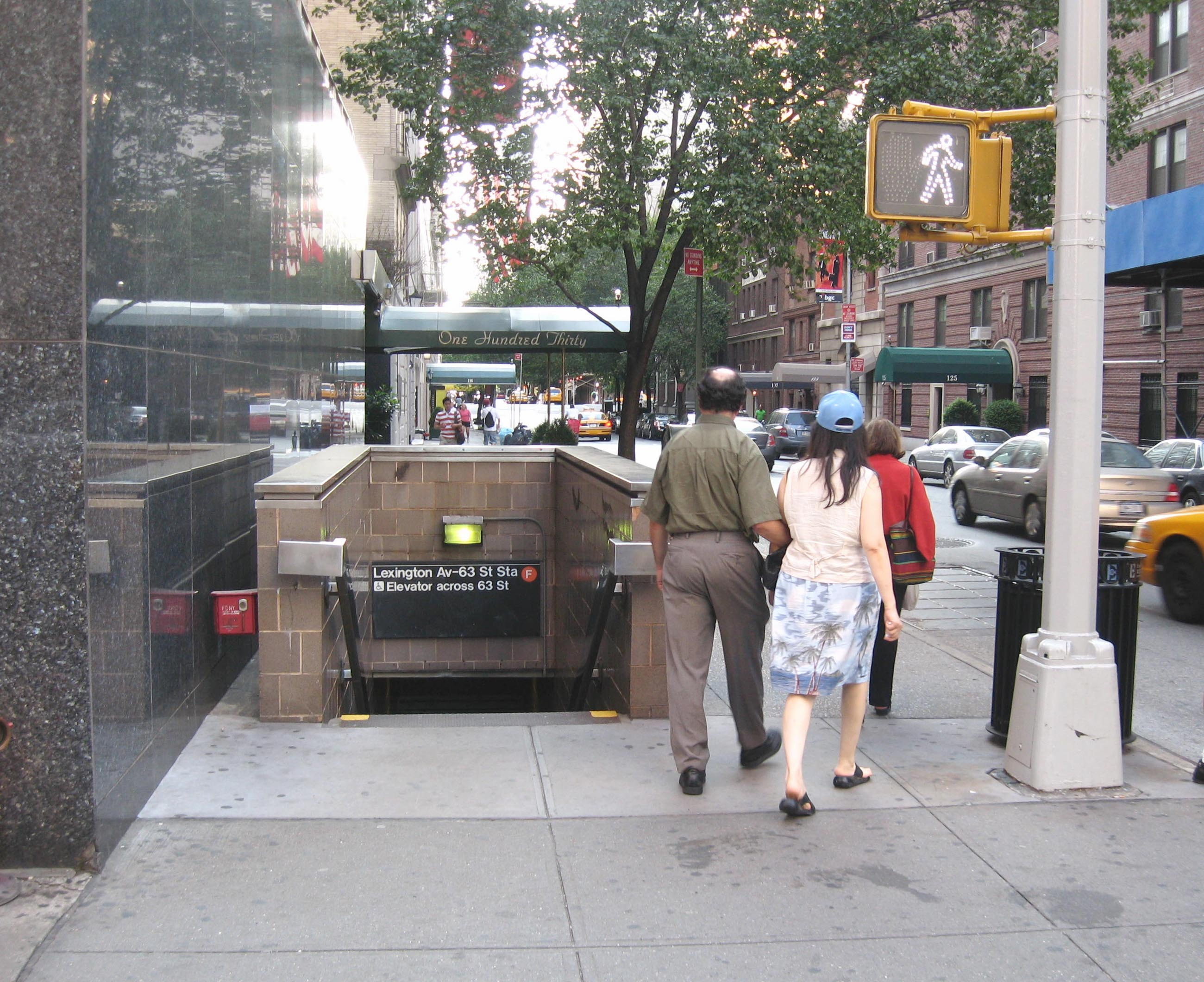 Looking west from Lex and along 63rd street south sidewalk, at IND Lexington Avenue station stair on a sunny afternoon